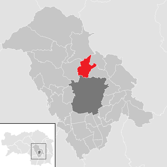 District Graz-Umgebung, Styria